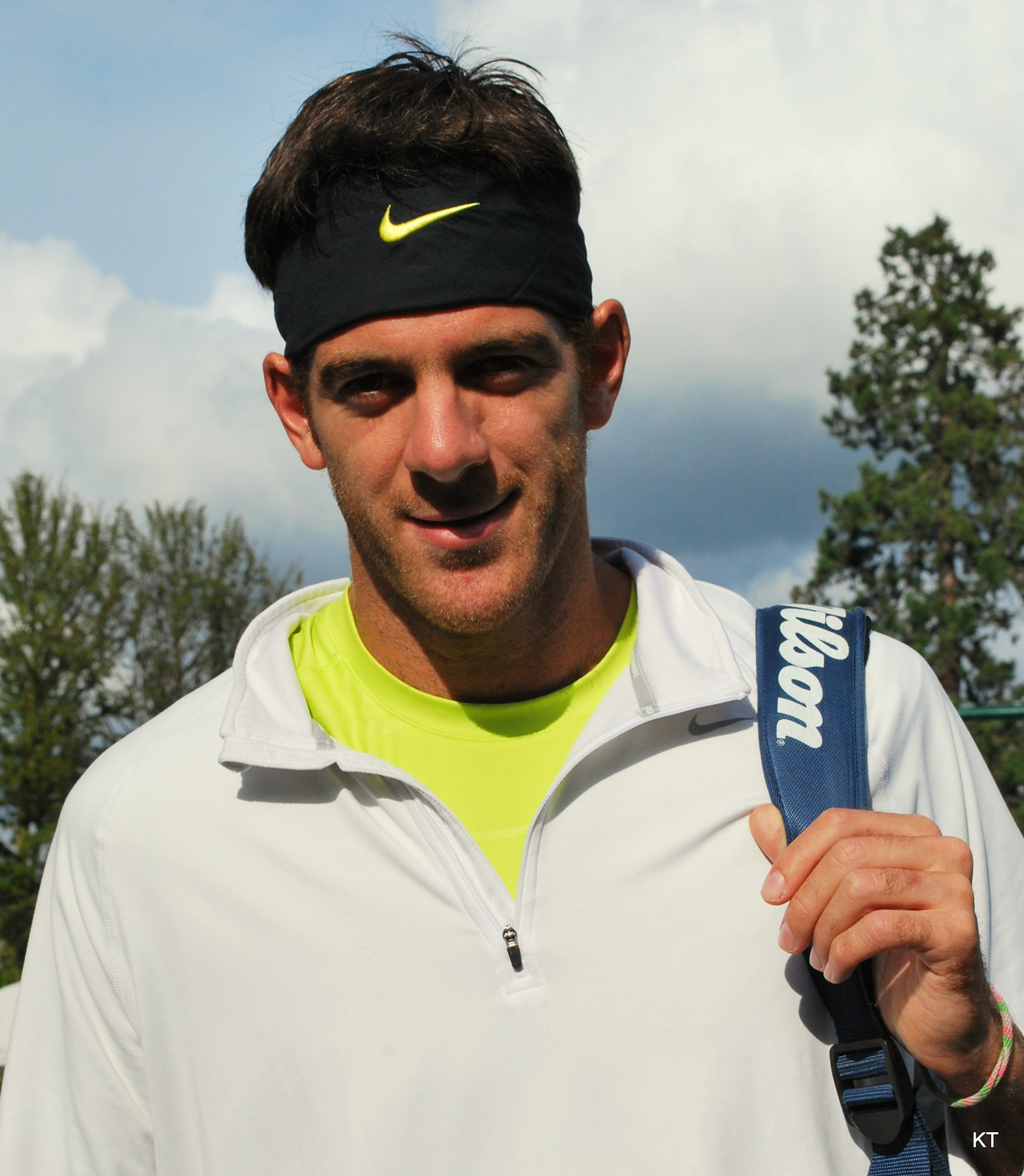 The Boodles, Stoke Park 2012.